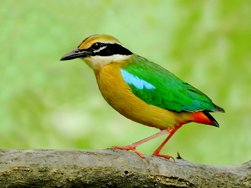 Indian pitta (Pitta brachyura) Photograph by Shantanu Kuveskar, from Mangaon, Raigad, Maharashtra